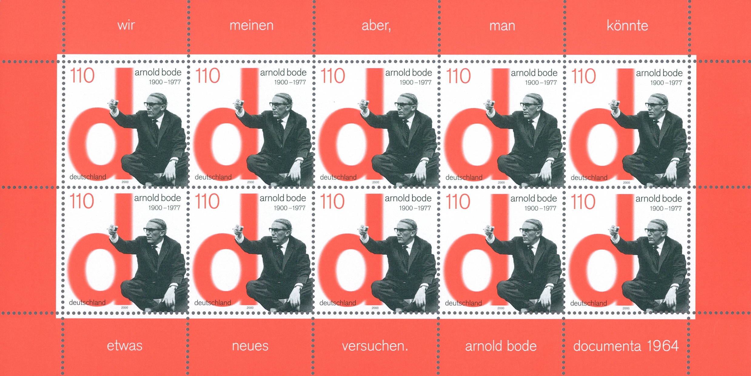 Stamp for the 100th birthday of Arnold Bode, founder of the documenta